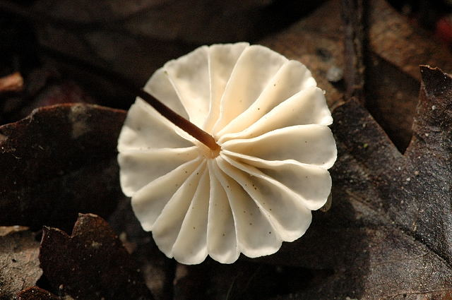 Marasmius rotula from Commanster, Belgium. The determination of the species shown in this picture has been verified.